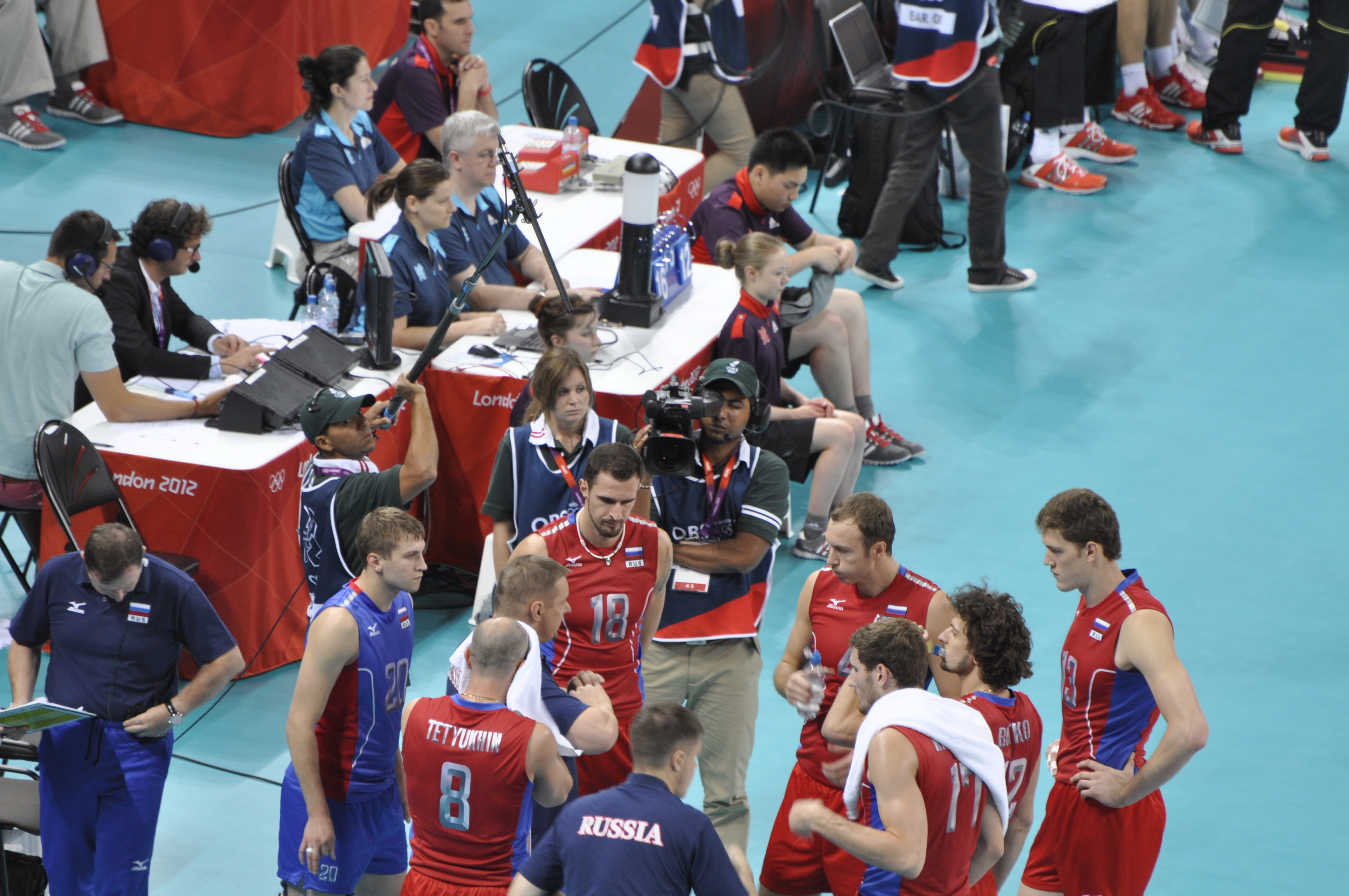 London Olympic 2012